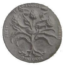 Reverse of the commemorative medal of Bona Sforza